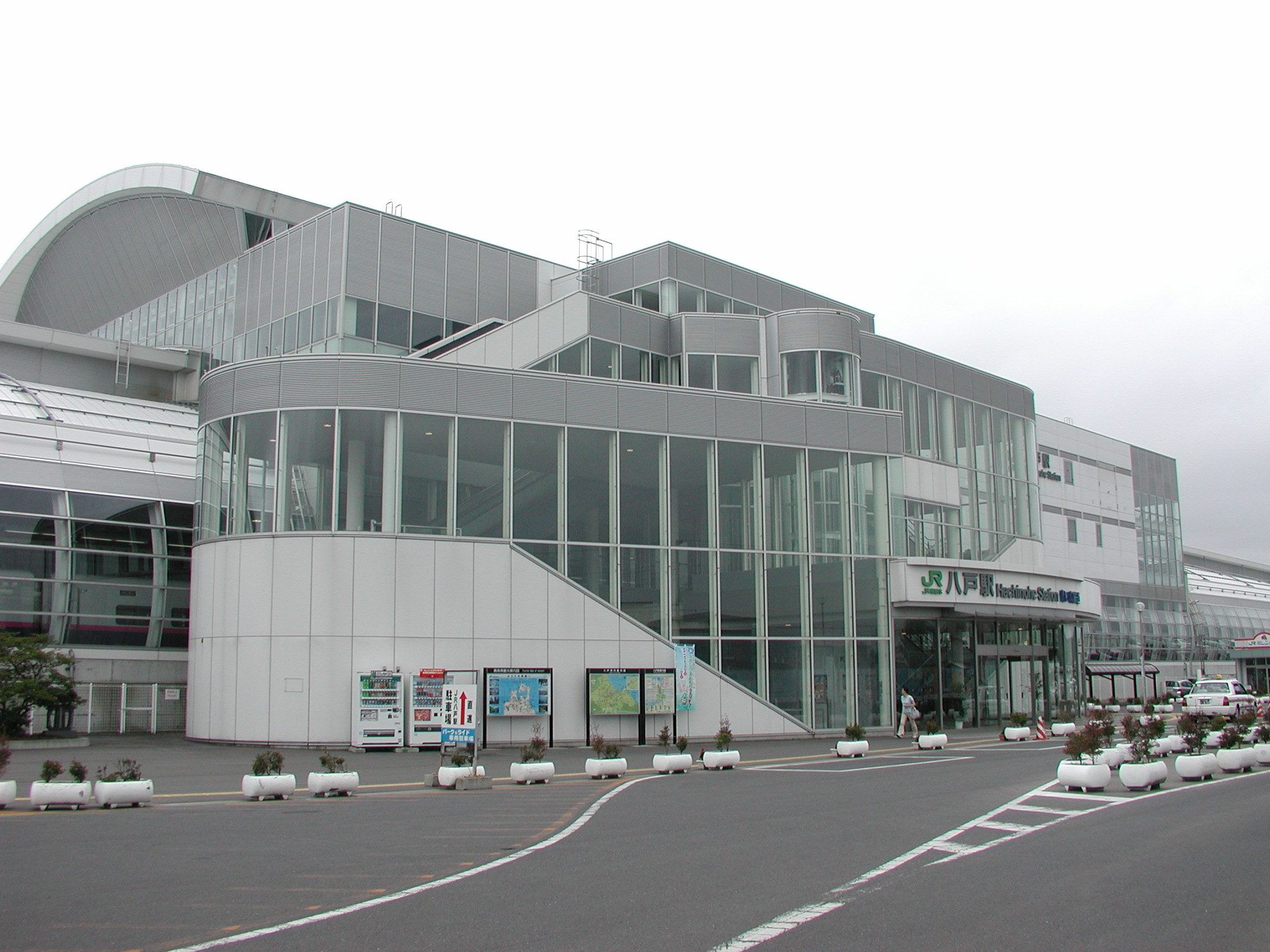 Hachinohe Station of West Entrance